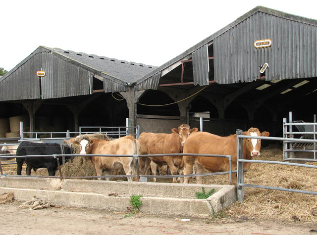 Bullocks on Salamanca Farm